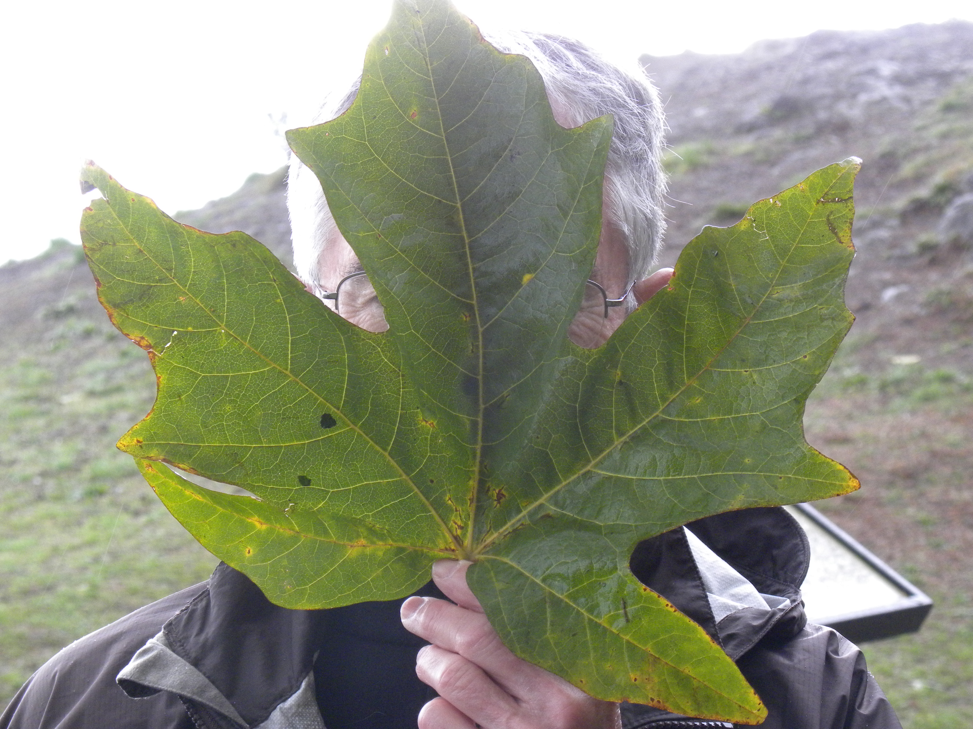 Acer macrophyllum leaf, Chirico Trail, Washington, USA. "Now you see why they are called BIG leaf maples".